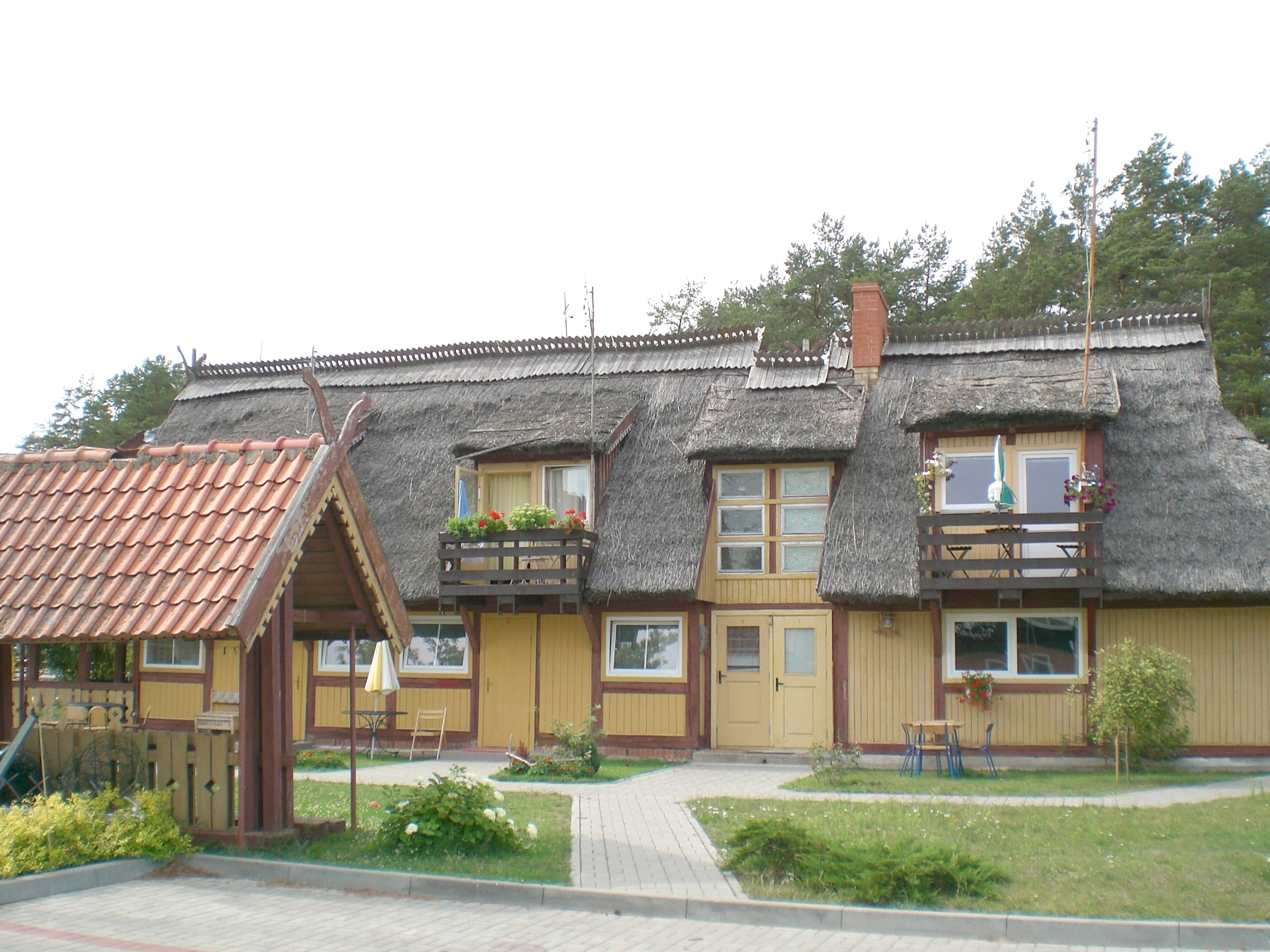 A traditional fishermen's house in Pervalka on the Curonian Spit (Lithuania)